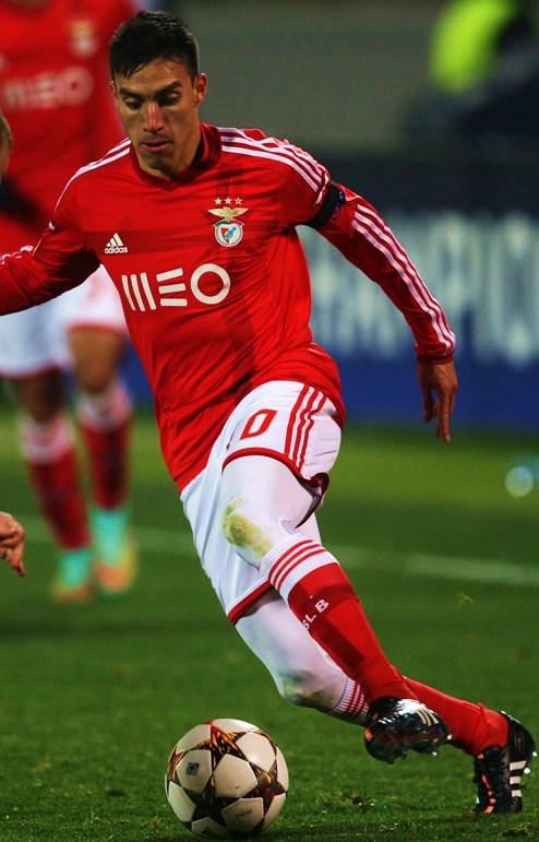 Nicolás Gaitán